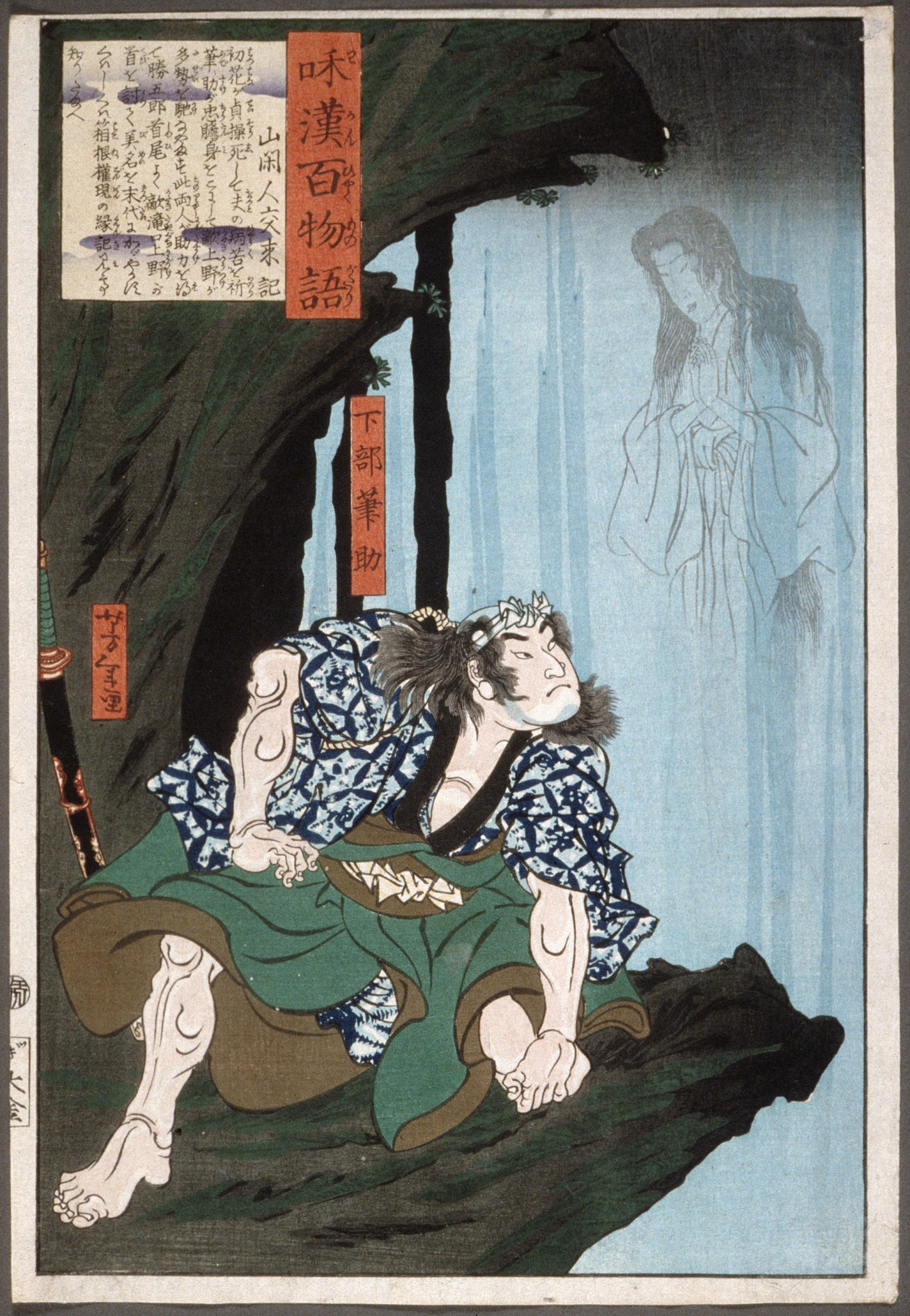 Japan, 9/1865 Series: One Hundred Ghost Tales from China and Japan Prints; woodcuts Color woodblock print Herbert R. Cole Collection (M.84.31.442) Japanese Art